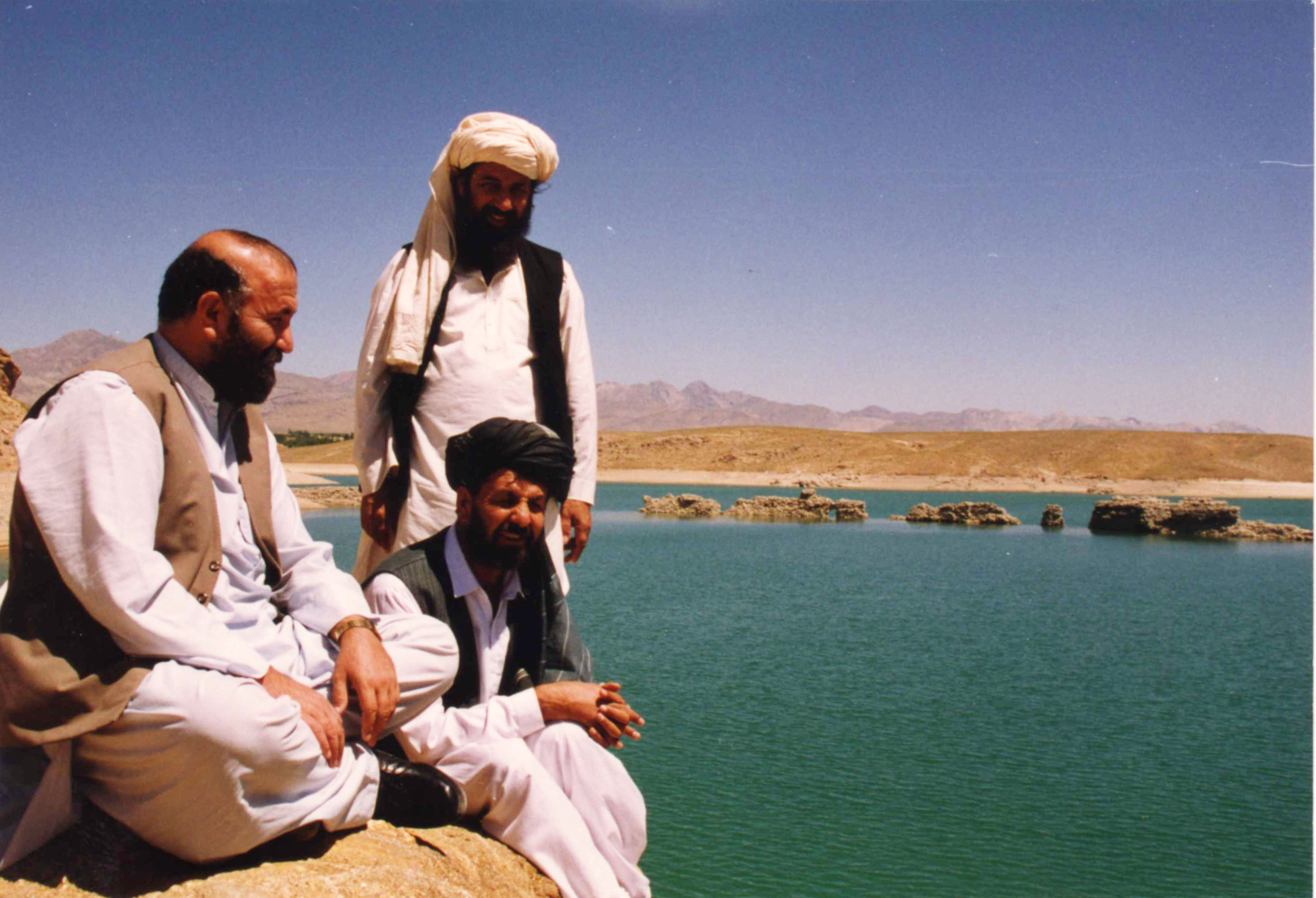 Abdul Haq (left), Amin Wardak, Akhtar Mohammad Tolwak (standing, he was the one with Najib Baba who obliged Massoud to participate in the Council of Commanders) at Band-e Sultan in Jaghatu, Wardak, in 1992. Meeting held in order to plan a security strategy in provinces, while fights had started in Kabul between several Mujahideen Commanders Summary Abdul Haq (left), Amin Wardak, Akhtar Mohammad Tolwak (standing, he was the one with Najib Baba who obliged Massoud to participate in the Council of Commanders) at Band-e Sultan in Jaghatu, Wardak, in 1992. Meeting held in order to plan a security strategy in provinces, while fights had started in Kabul between several Mujahideen Commanders